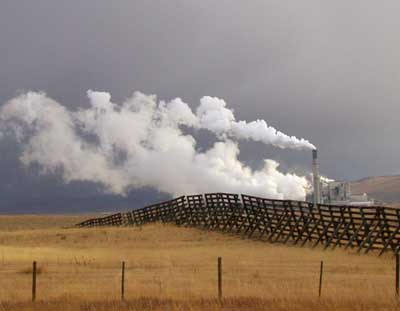 A power plant seen from U.S. Highway 30 just west of Kemmerer.